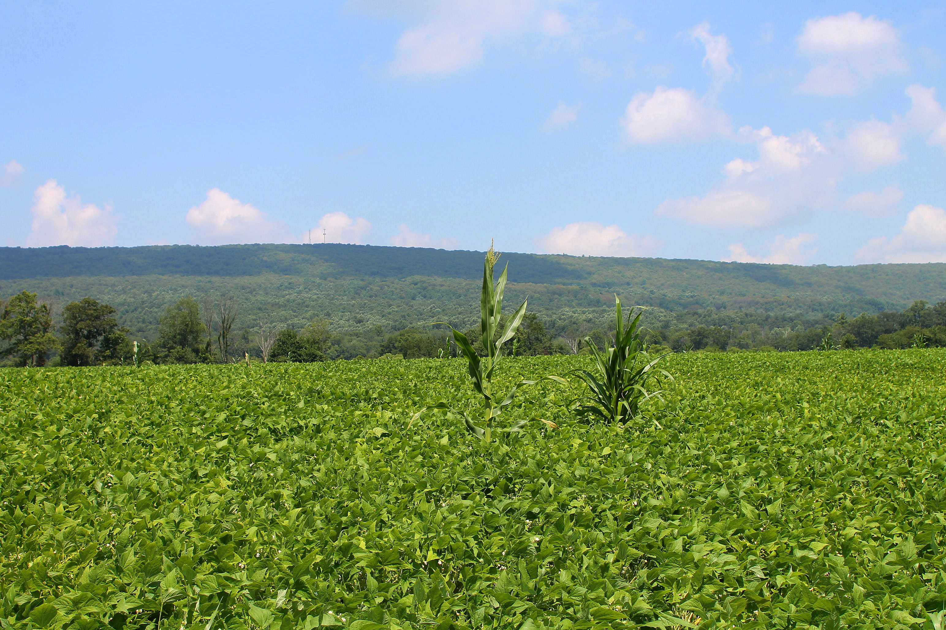 View of Point Township, Northumberland County, Pennsylvania, with Montour Ridge in the background